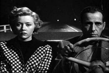 Description: Low-resolution reproduction of screenshot from trailer for the movie In a Lonely Place (1950), featuring stars Gloria Grahame and Humphrey Bogart.